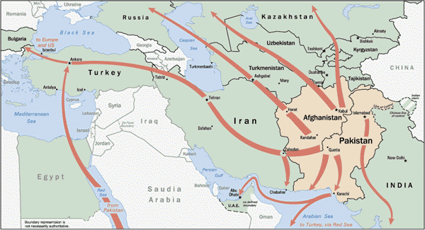 Heroin flows in Southwest Asia, 2007